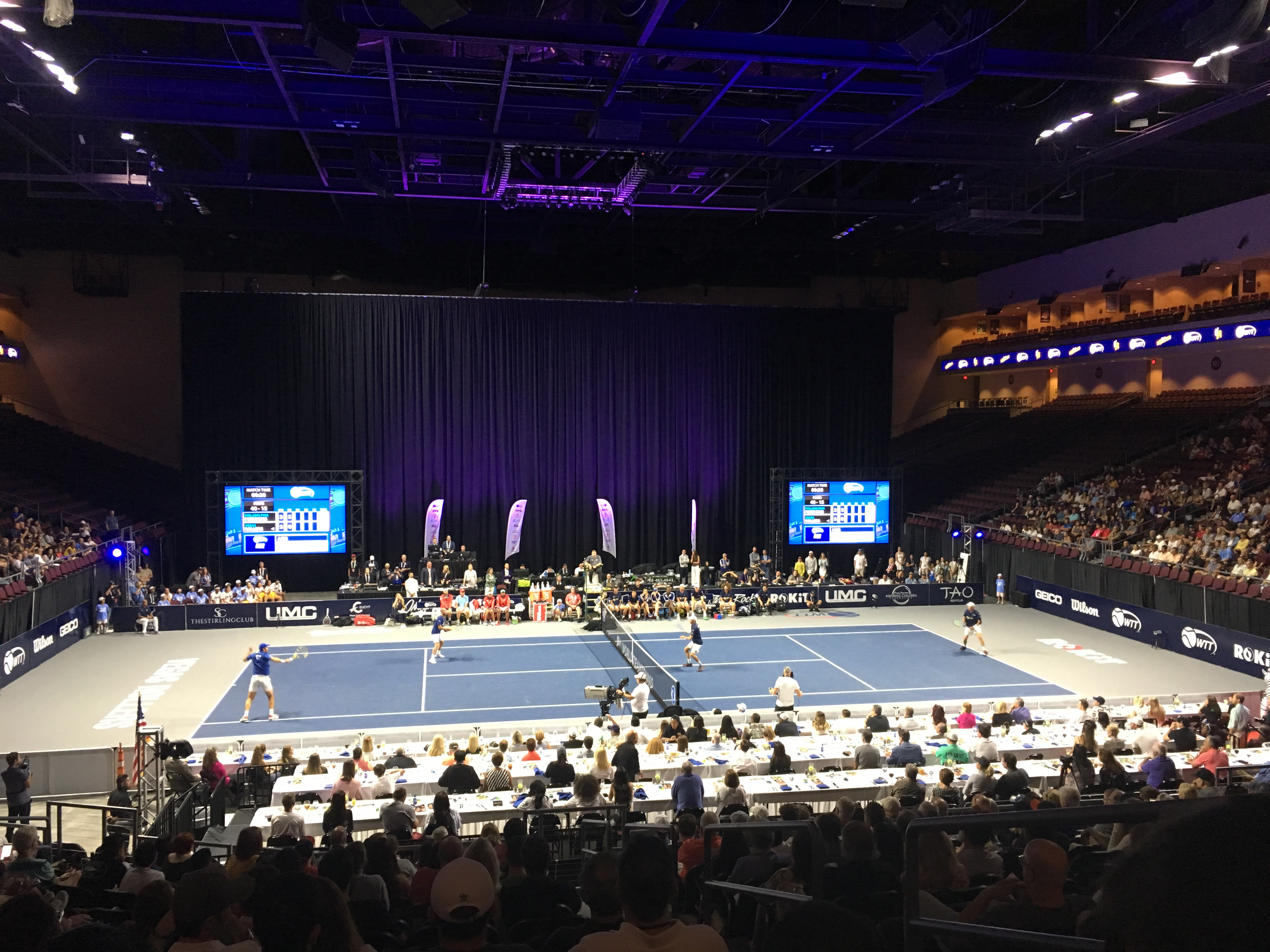 A men's doubles World Team Tennis game between Fabrice Martin and Adrian Mannarino of the Philadelphia Freedoms (left) and the Bryan brothers of the Vegas Rollers (right), in Orleans Arena on July 21, 2019.